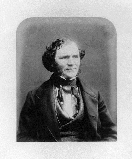 Portrait of Leopold von Ranke